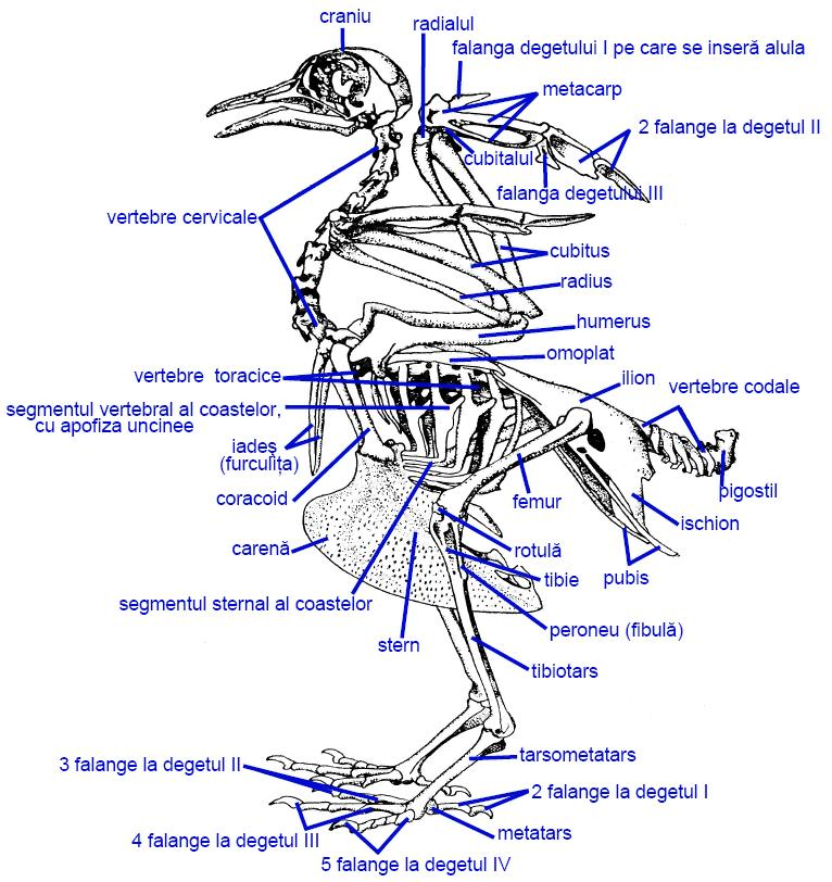 dove skeleton